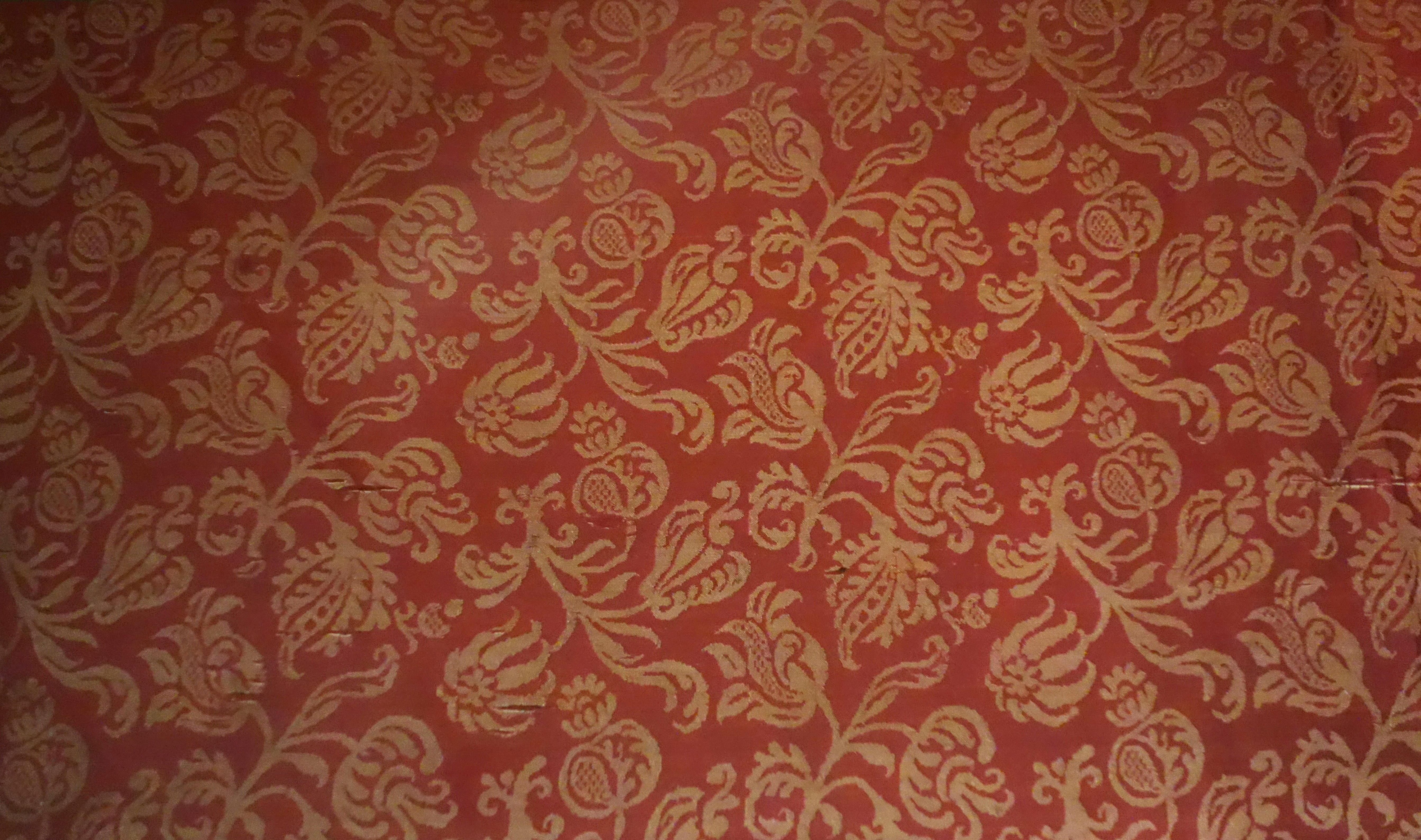 Exhibit in the Royal Ontario Museum, Toronto, Ontario, Canada. This work is old enough so that it is in the public domain.